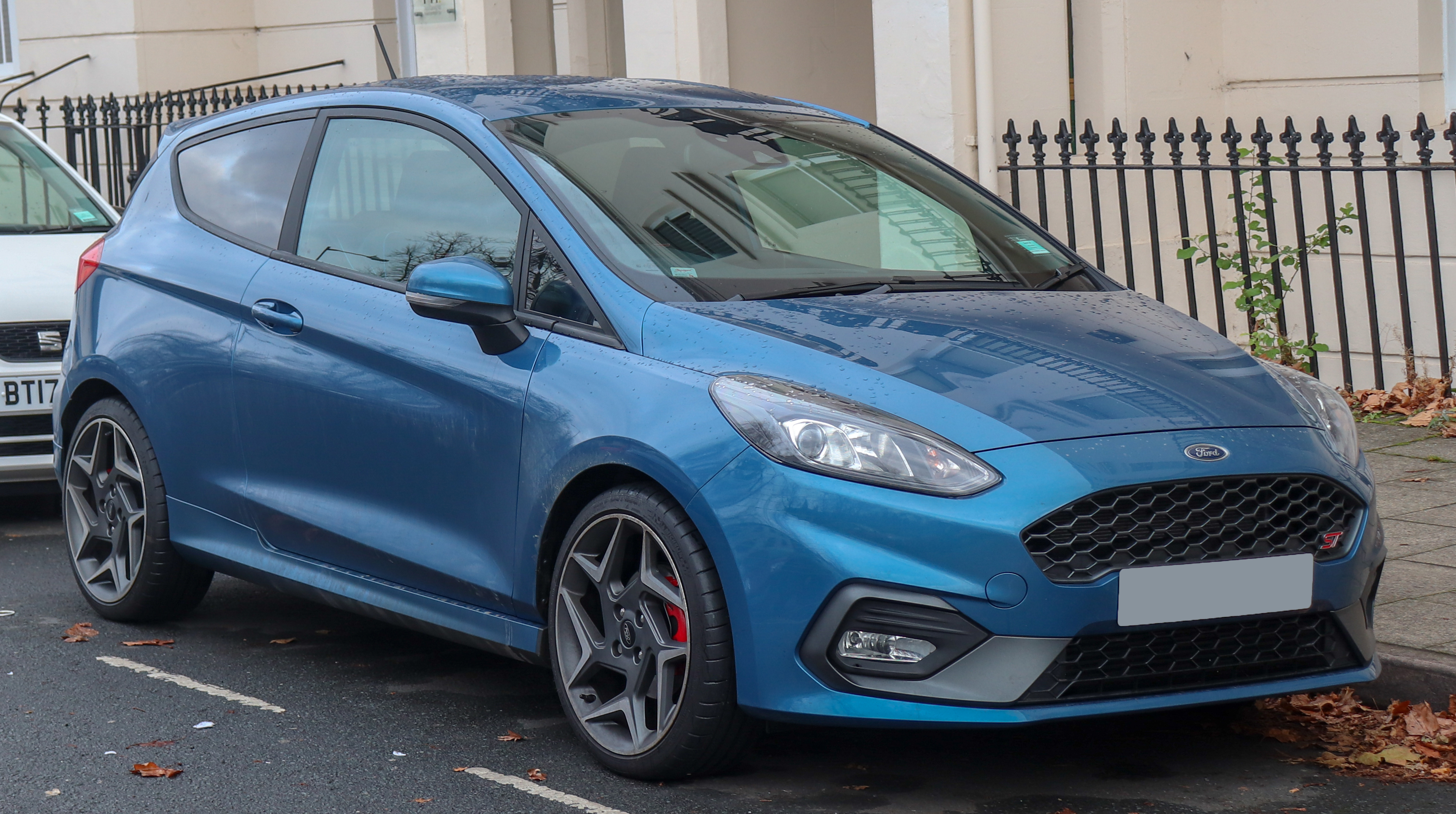 2018 Ford Fiesta ST-2 Turbo 1.5 Front Taken in Leamington Spa